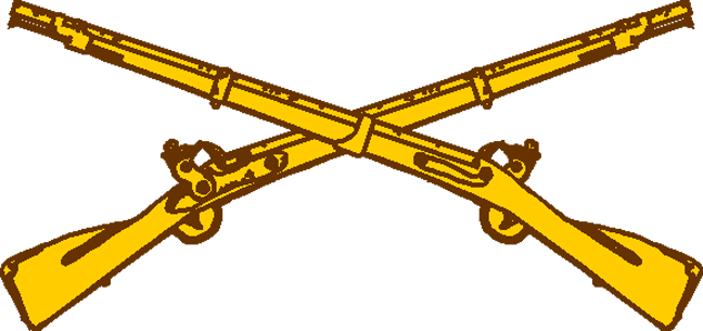 United States Army Infantry collar brass. Made with Photoshop.